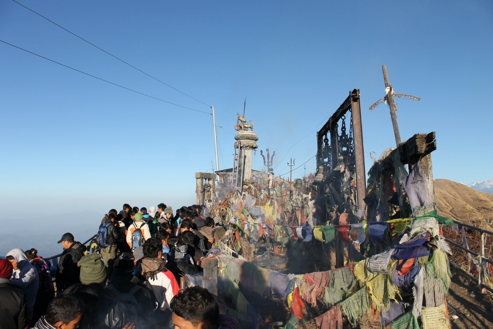 Kalinchok bhagawati temple situated in Dolakha District.